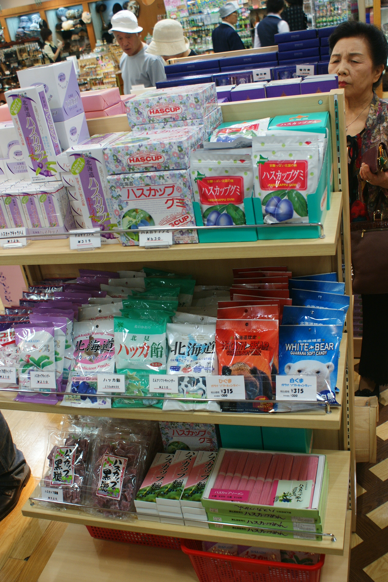 Haskap Products at Haskap Store at New Chitose Airport: Mostly Candy, bottom shelf has coloured noodles.